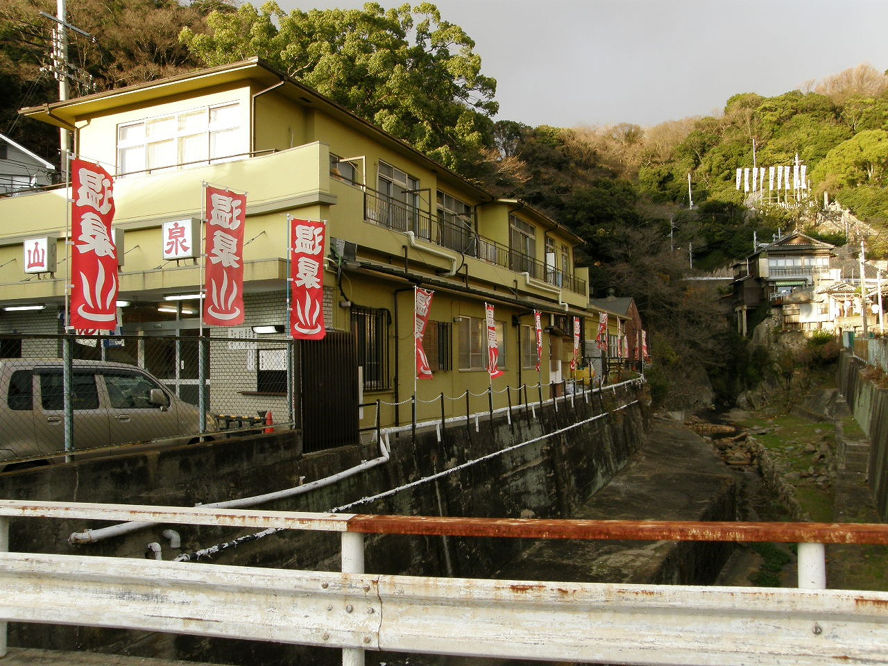 minatoyama-onsen 湊山温泉